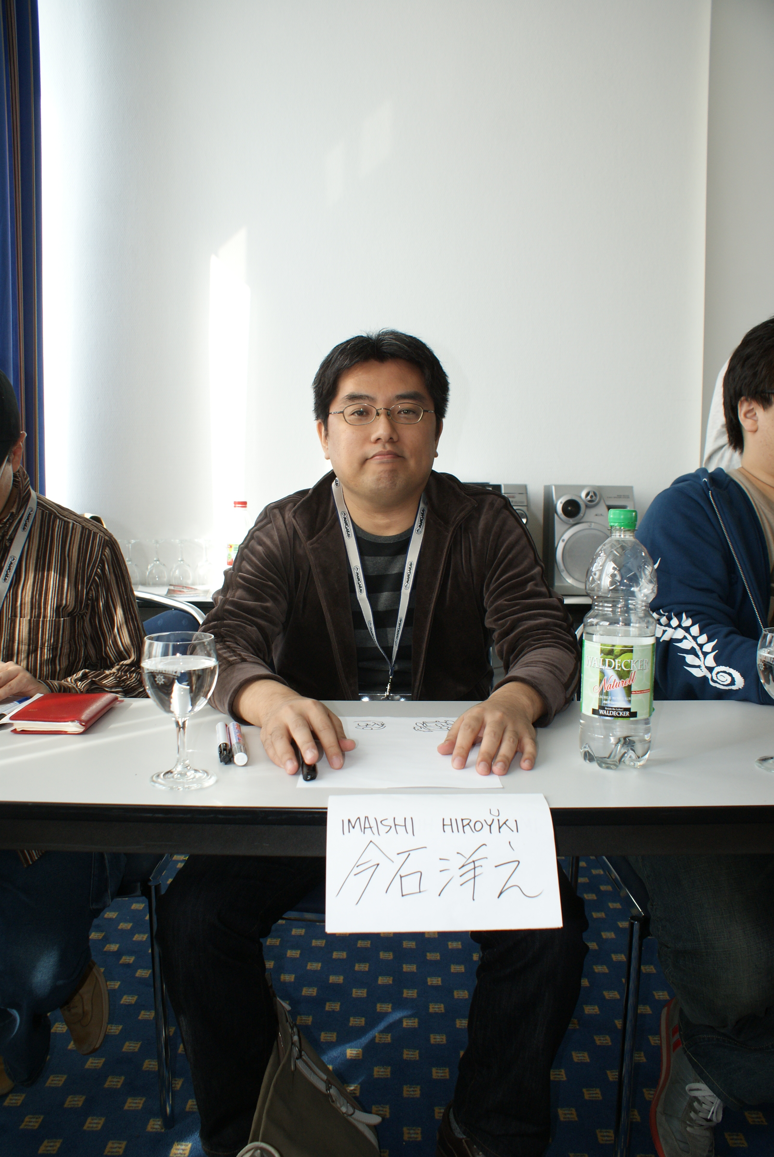 Picture made at Connichi 2008. Person in picture gave permission through translator (de/ja)